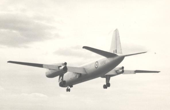 Short Sperrin Gyron testbed landing at Farnborogh SBAC Show